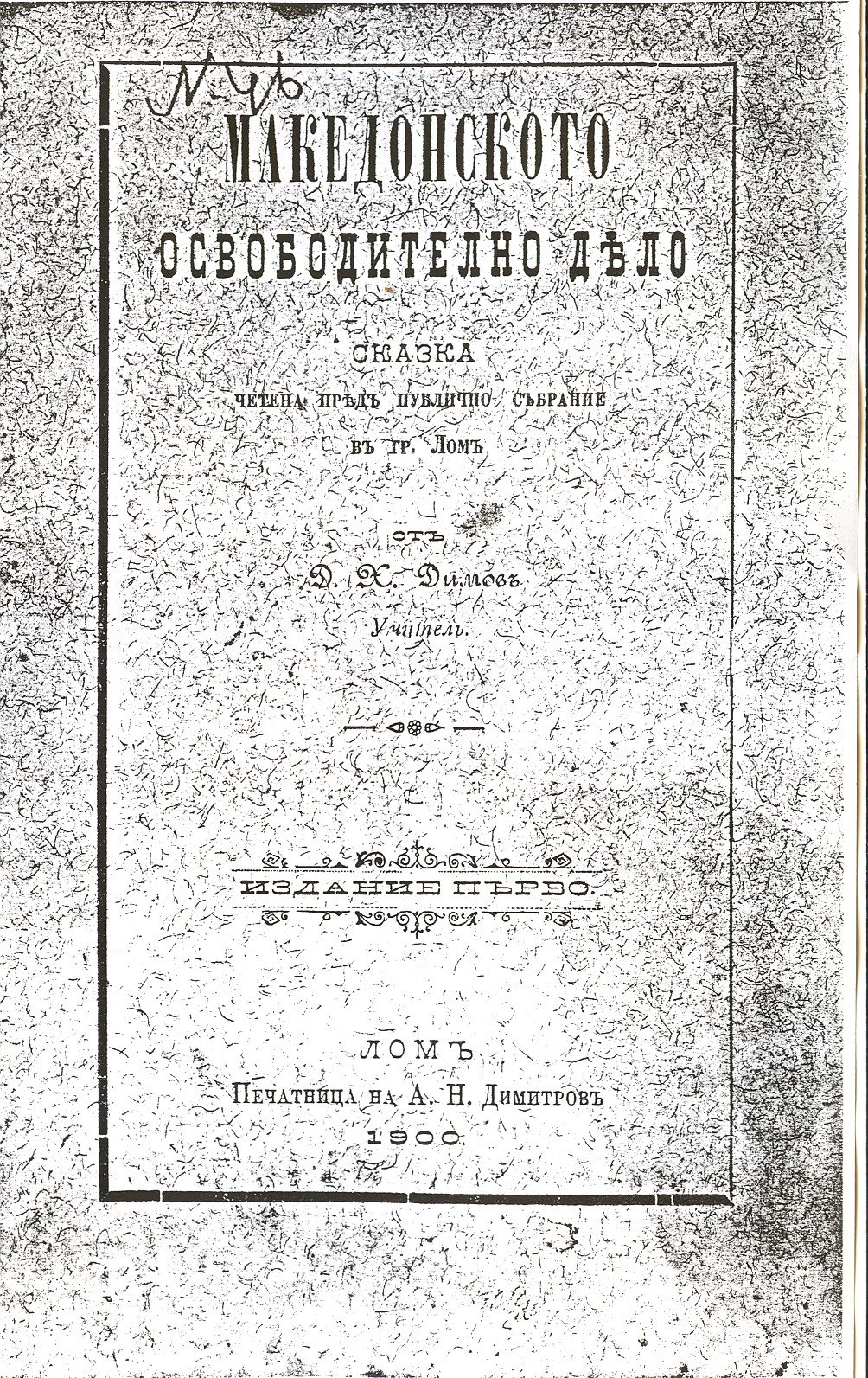 Front page of Dimo Hadjidimov's "Macedonian liberation cause"